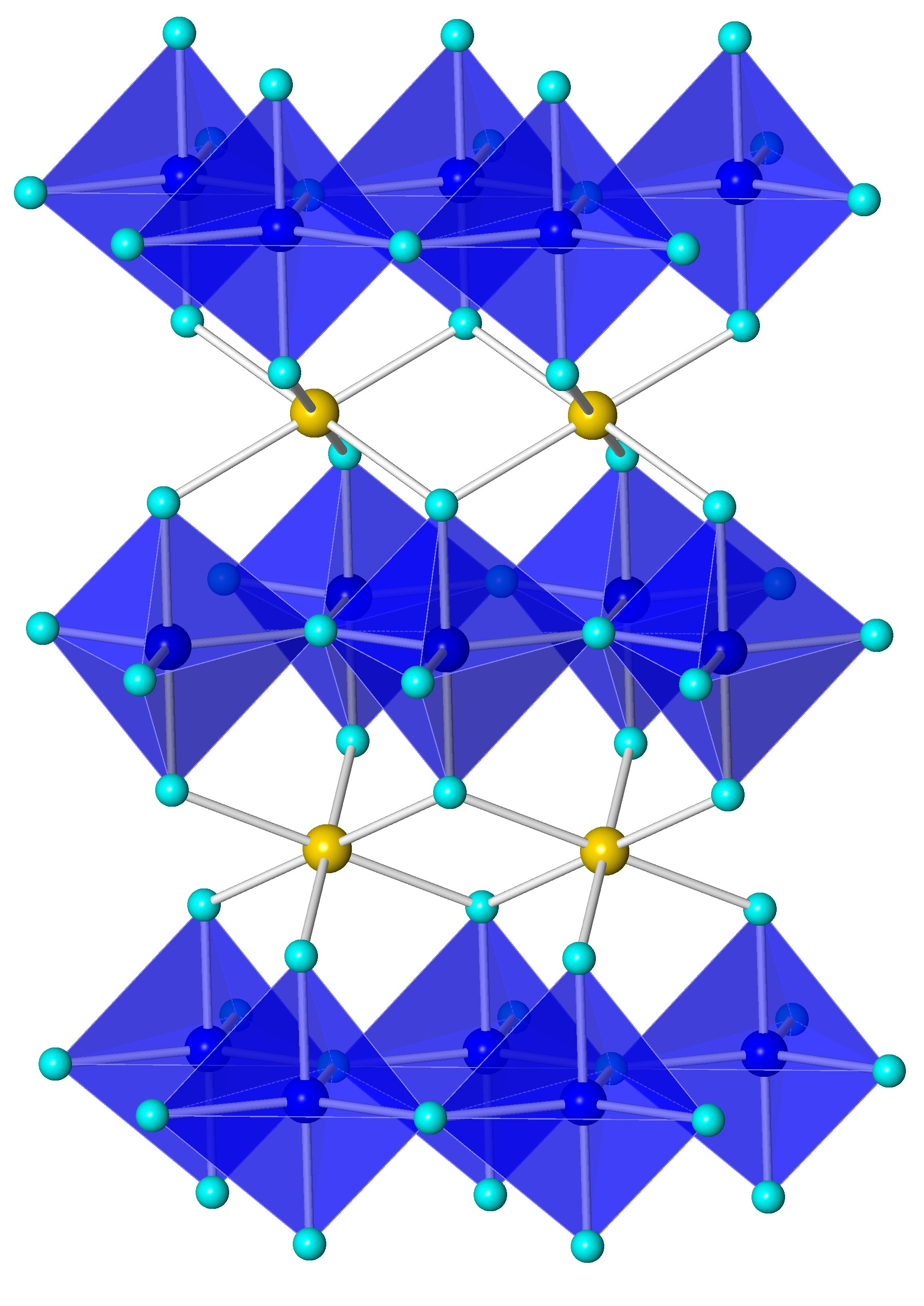 Crystal structure of YInMn Blue